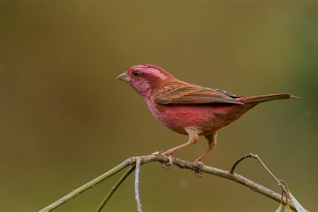 Pink-browed Rosefinch | Makku, Uttarakhand, India